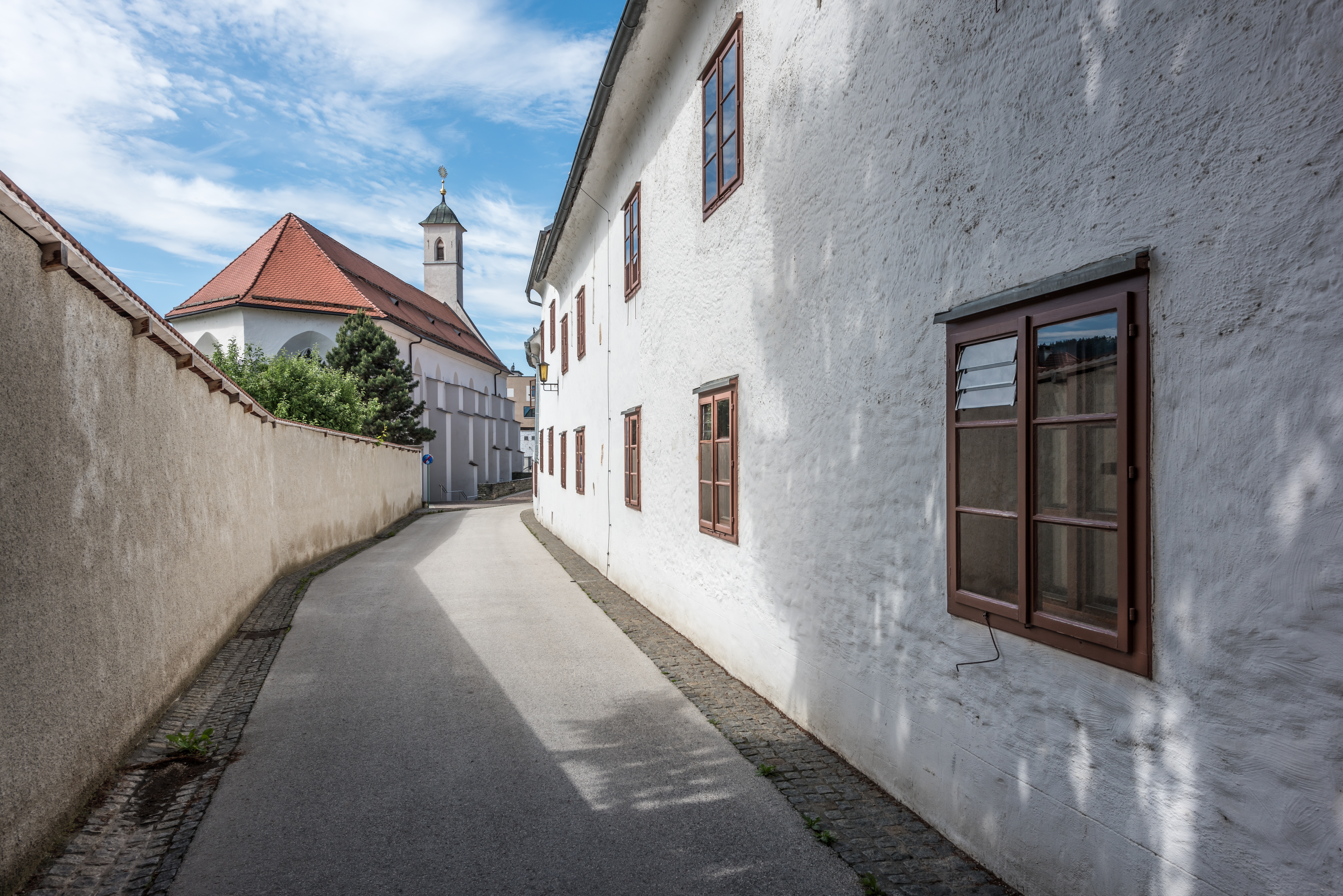 Former citizen`s hospital and monastery church Our Lady on Bürgergasse, city of St. Veit an der Glan, district Sankt Veit, Carinthia, Austria, EU